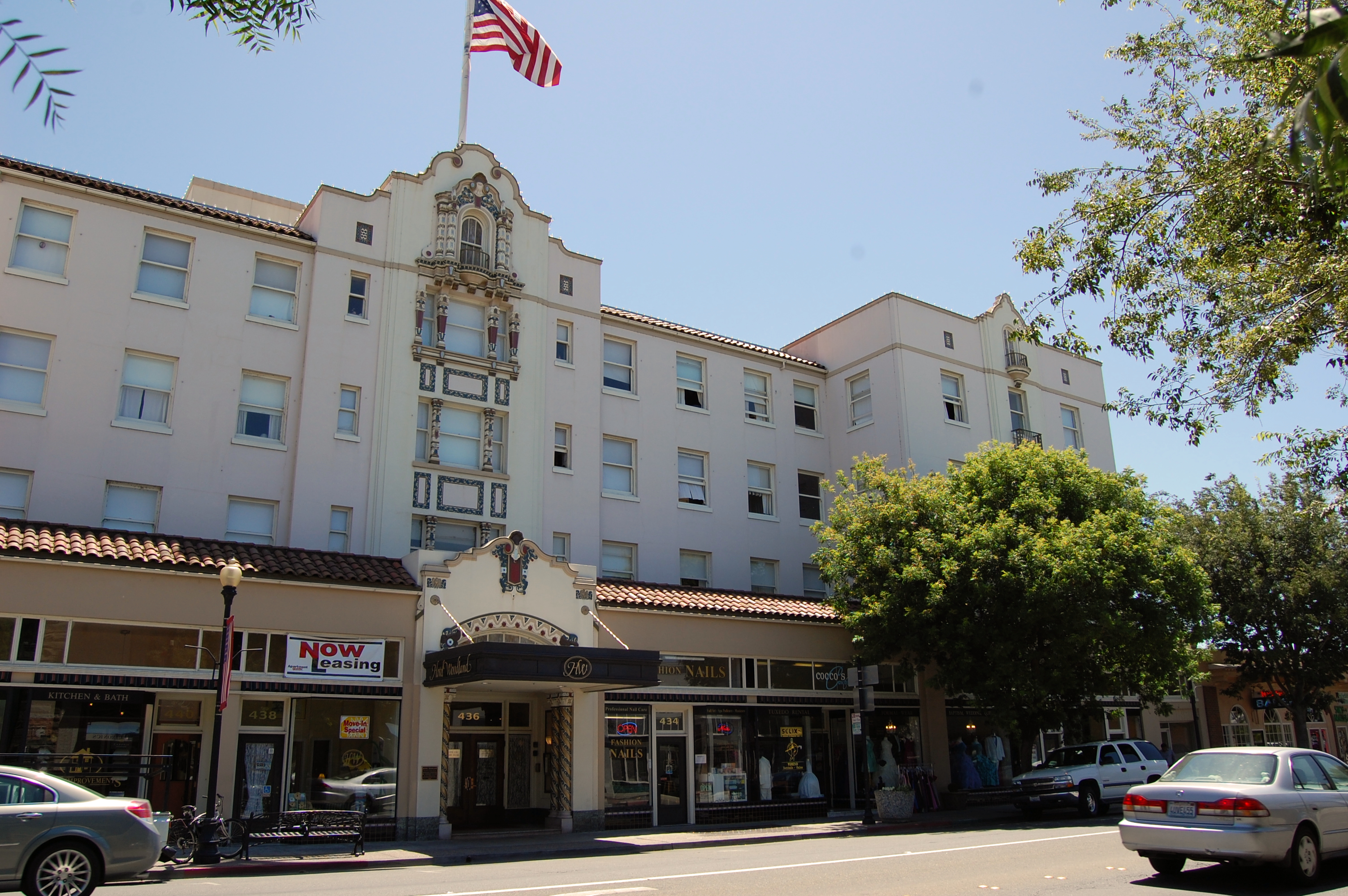 The Hotel Woodland in Woodland, California, listed on the National Register of Historic Places. It is now a low-income apartment building.